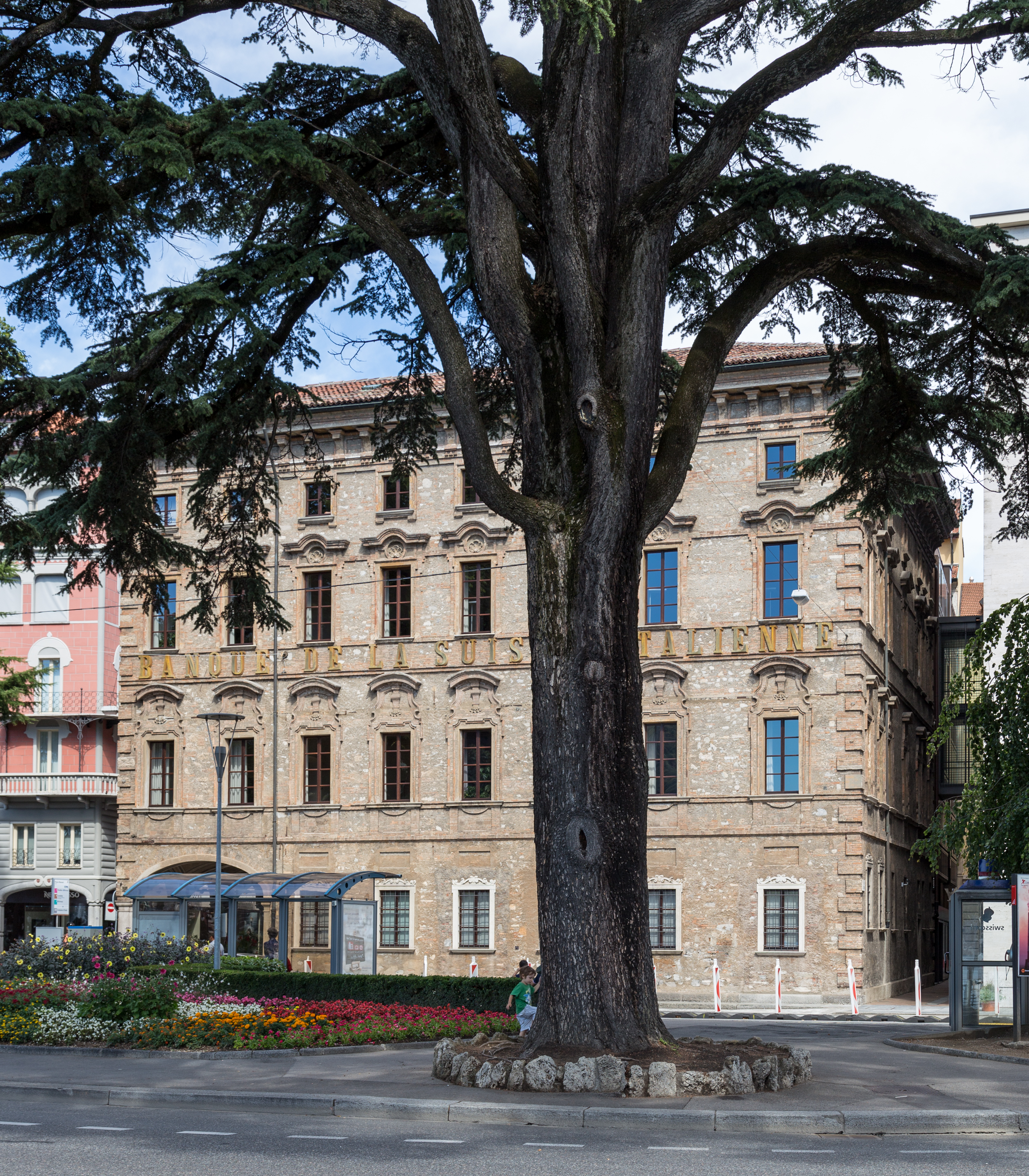 Banca della Svizzera Italiana at Piazza della Riforma in Lugano, Switzerland